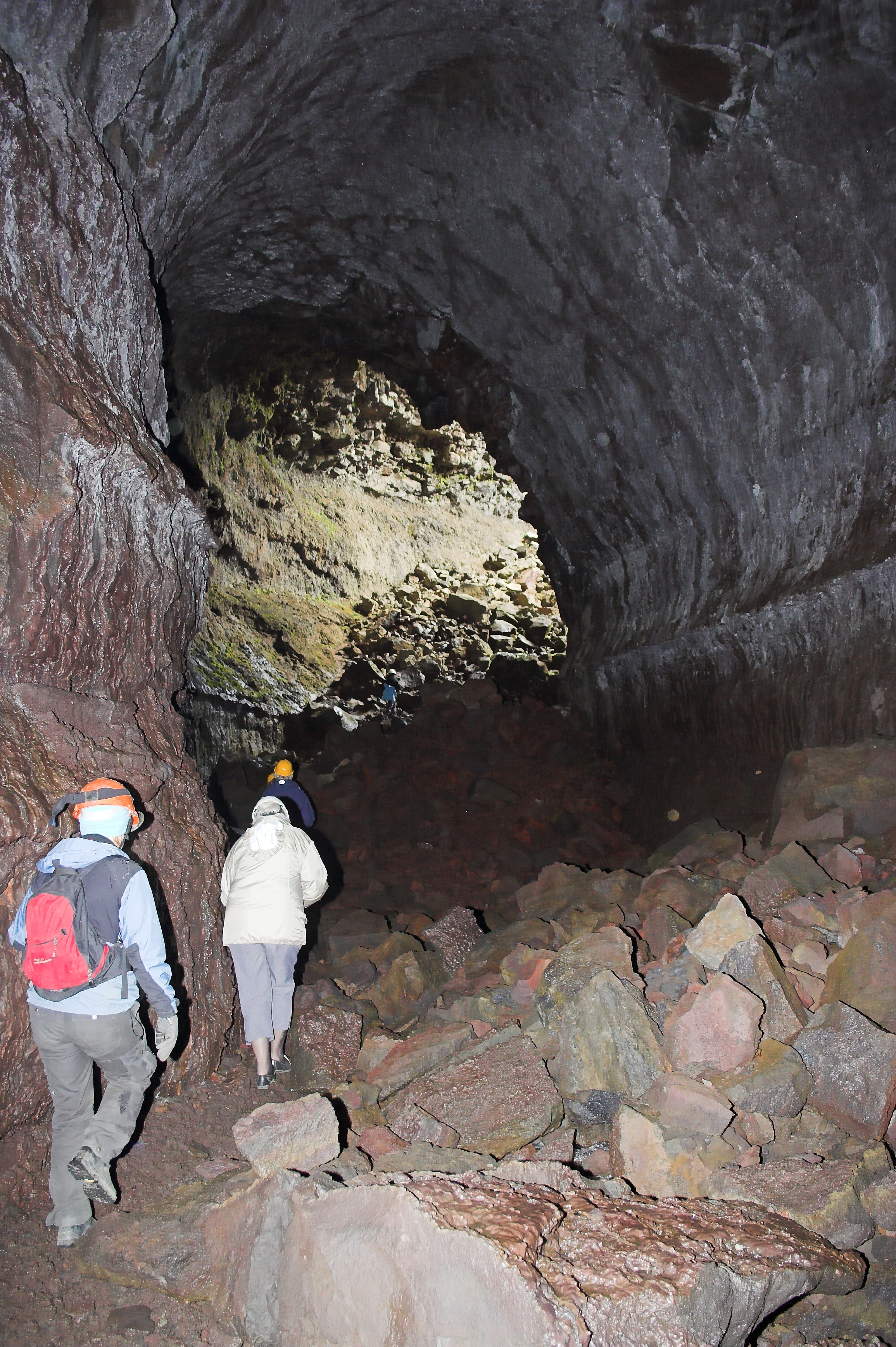 Ascending from cave Víðgemlir